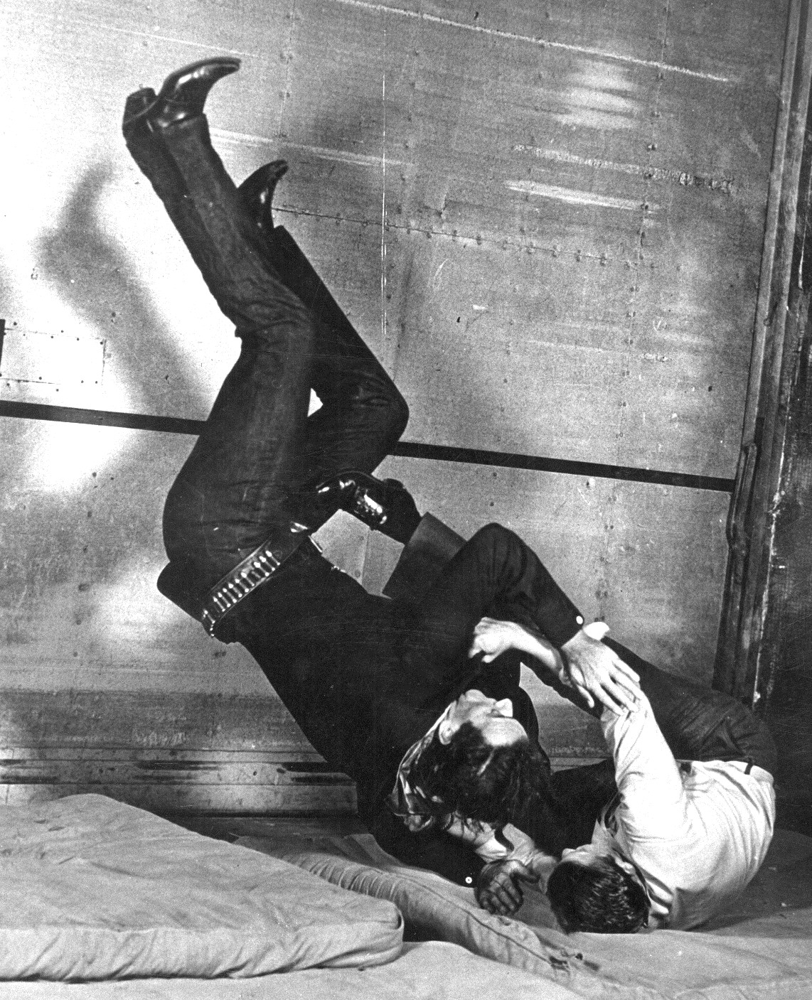 Bill Schultz tosses John 'Duke' Wayne through the air with the greatest of ease (1943, Hollywood)